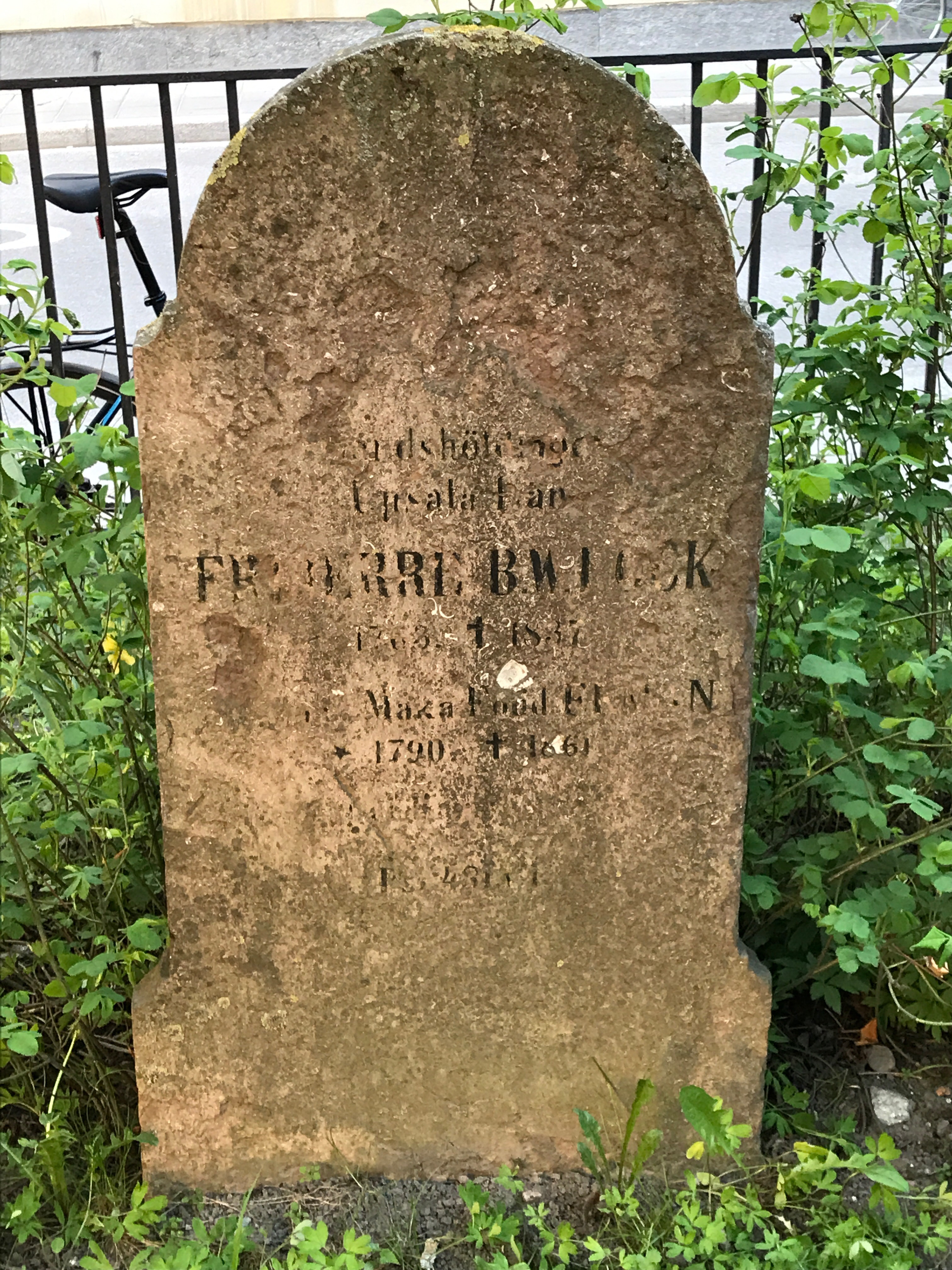 Adolf Fredriks Cemetery